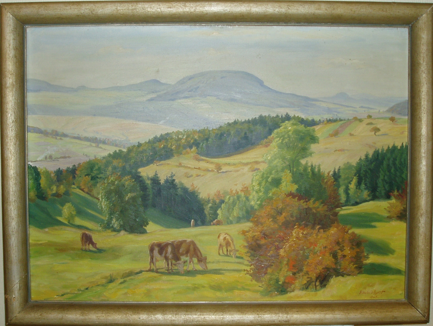 Pippert, Wilhelm - Rhön-Landscape with Cows to Unterweid (Germany) Oil on canvas, 900 x 660